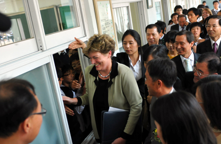 US Ambassador to South Korea Kathleen Stephens is greeted by Principal Park Jong-wan and students at Yesan Middle School where Stephens taught as a Peace Corps Volunteer 33 years before.